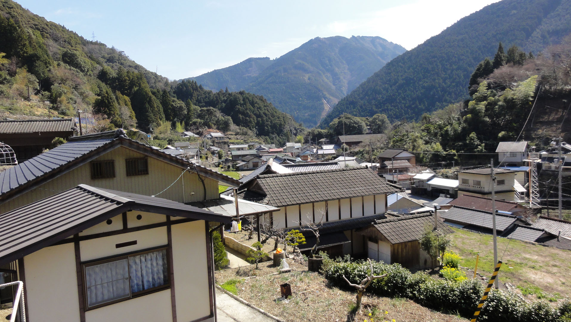 Monobecho Okanouchi, Kami, Kochi Prefecture 781-4641, Japan